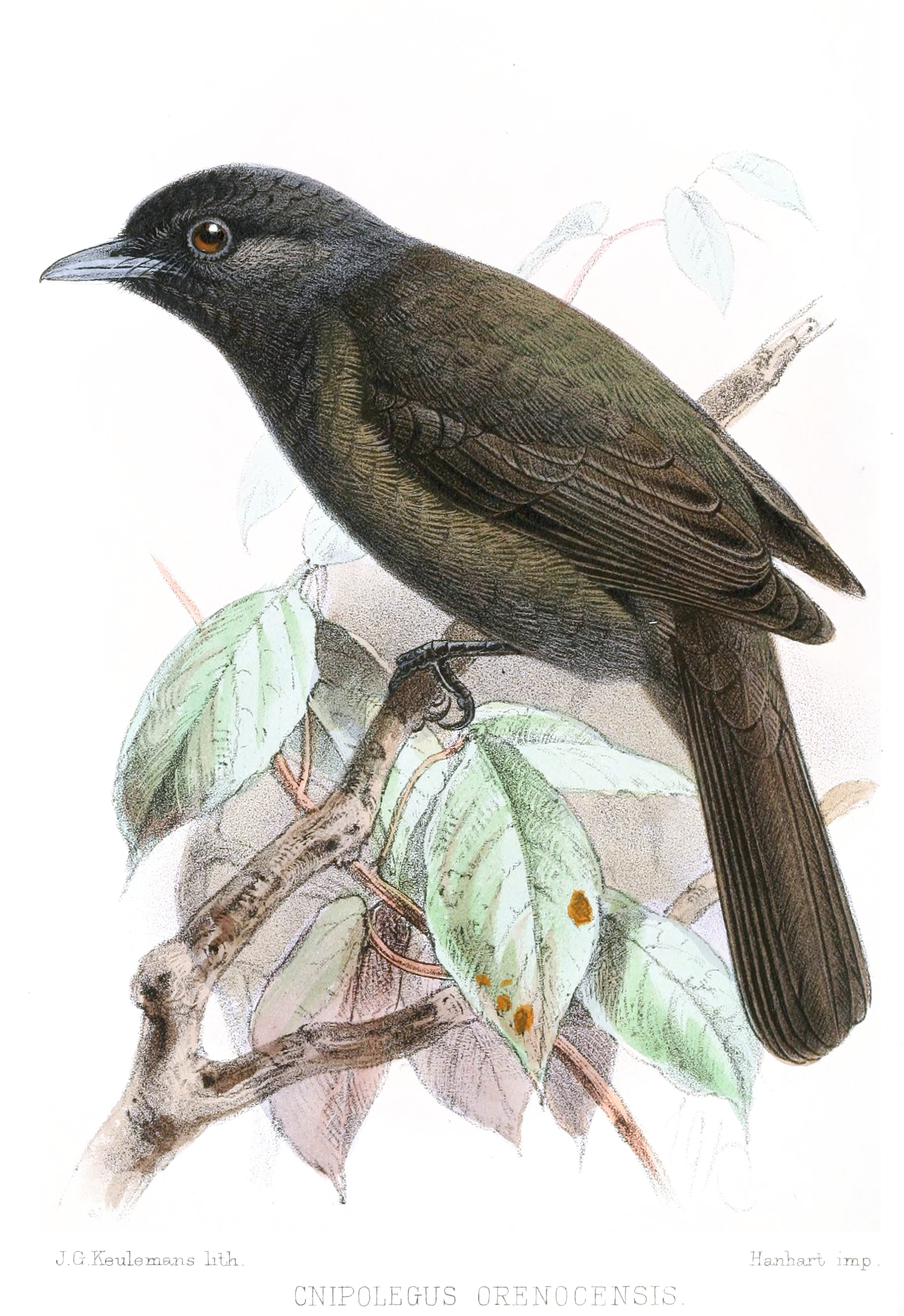 Cnipolegus [sic] orenocensis from The Ibis.